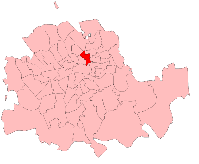 A map of Hoxton constituency within the Metropolitan Board of Works area, as it existed from 1885 to 1918.